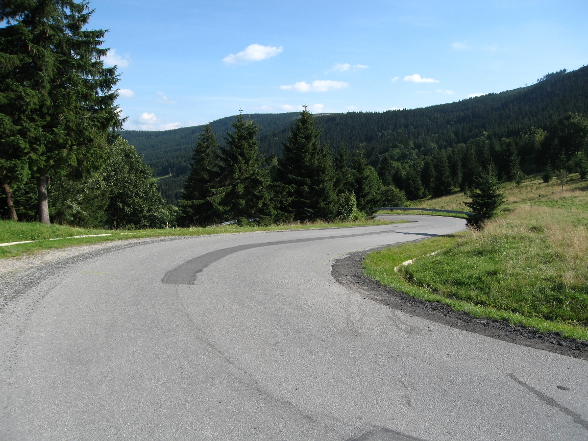 Road 392 in Poland, nearby Stronie Slaskie.